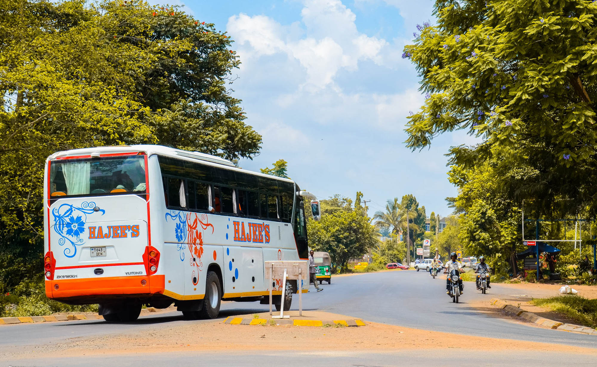 Bus travel is an inevitable part of the Tanzania experience for many travellers. Prices are reasonable for the distances covered, and there’s often no other way to reach many destinations. On major long-distance routes, there’s a choice of express and ordinary buses; price is usually a good indicator of which is which. Express buses make fewer stops, are less crowded and depart on schedule. Some have toilets and air-conditioning, and the nicest ones are called ‘luxury’ buses. This is an image with the theme "Africa on the Move or Transport" from: Tanzania